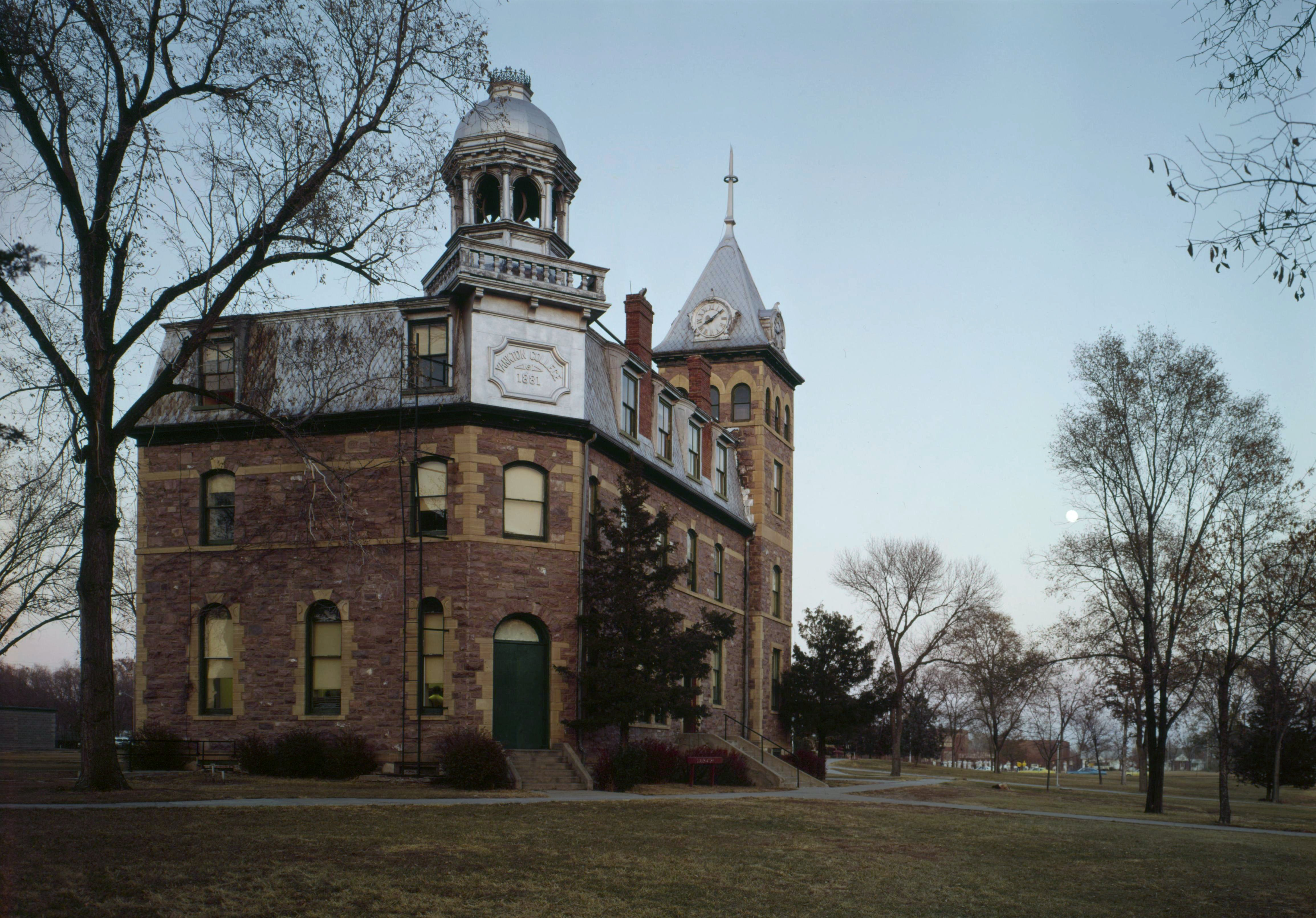 Front of the Yankton College Conservatory on the campus of Yankton College in Yankton, South Dakota. Built in 1883, the conservatory is listed on the National Register of Historic Places. 1978 image: HABS−Historic American Buildings Survey of South Dakota.